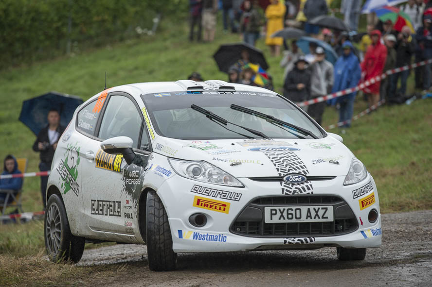 Rally Germany 2012 ADAC Rallye Deutschland,Emil Axelsson,Ford Fiesta R2,Motorsport,Pontus Tidemand,Rally,Rallye,Rallye Deutschland,SS7,Stein & Wein 1,WP7,WRC